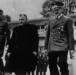 Pictures from the Salzburg Conference (1940), published shortly afterwards